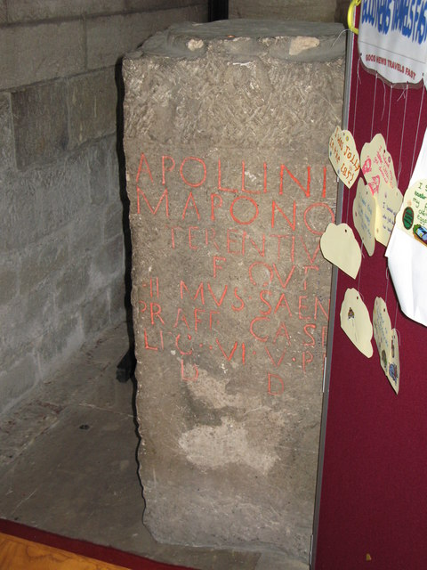 Roman altar, North Nave Aisle, Hexham Abbey The altar is inscribed (translated from the Latin): "To Apollo, Maponius, Quintus Terentius Firmus, son of Quintus, of the Oufentine voting-tribe, from Saena, prefect of the camp of the Sixth Legion, Victrix, Pia Fidelis, gave and dedicated this". {Source: Hexham Abbey Guide, p25.